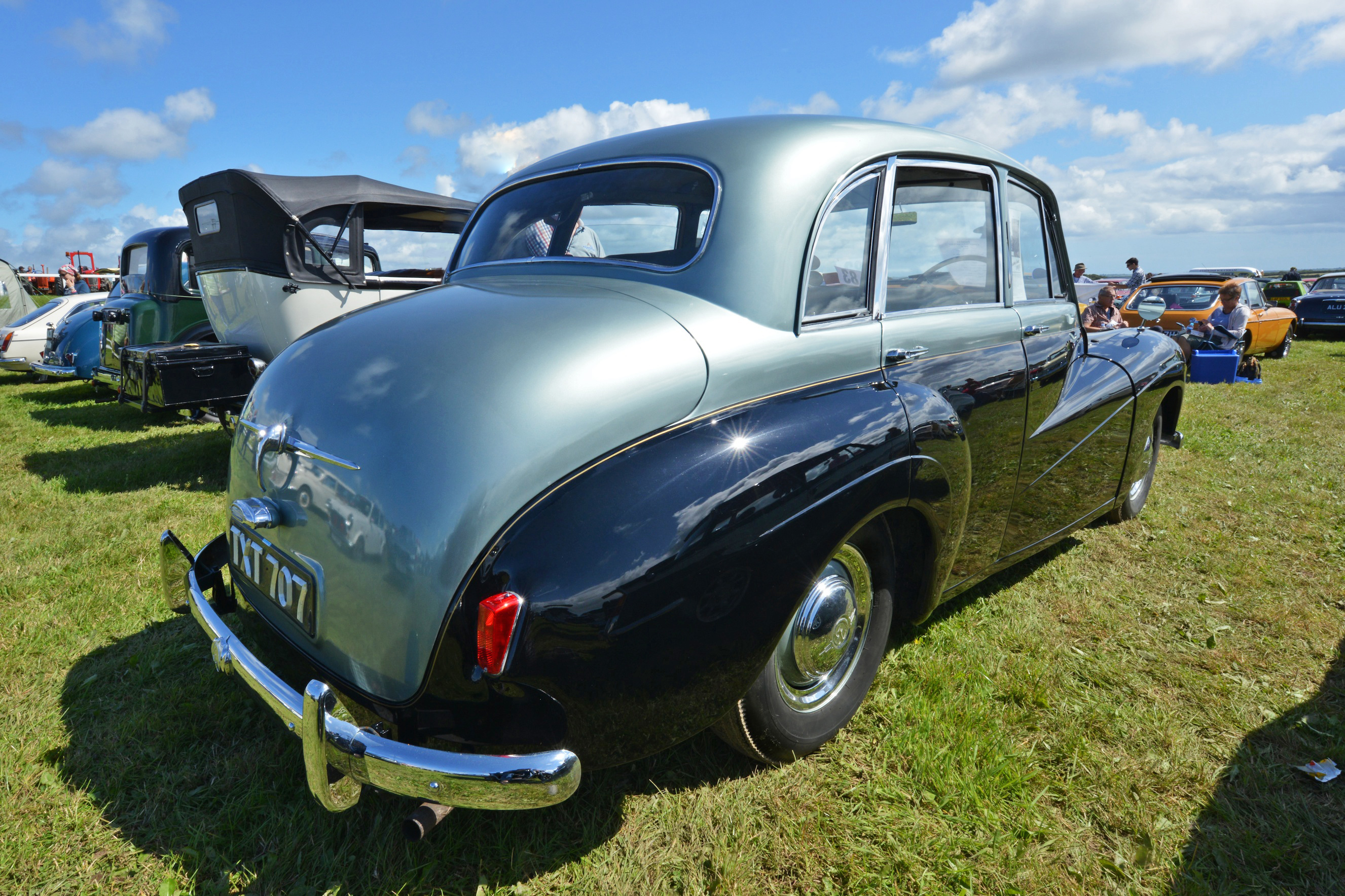 Daimler Conquest Century Mark II DJ256 saloon (DVLA) First registered 20 April 1957, 2433cc.